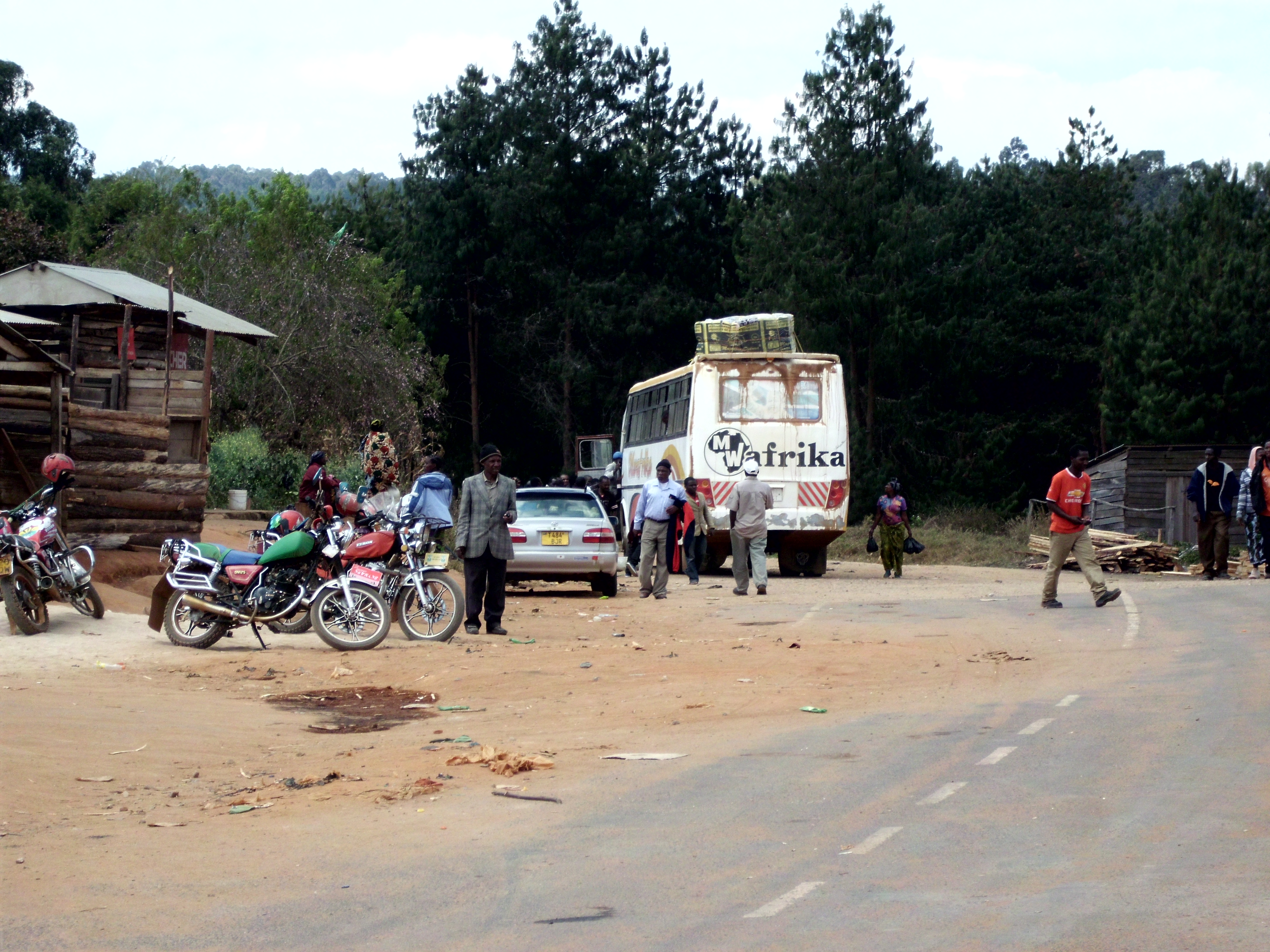 mwafrica bus, takes people from iringa town to boma la ng'ombe and vise versa This is an image of "African people at work" from Tanzania